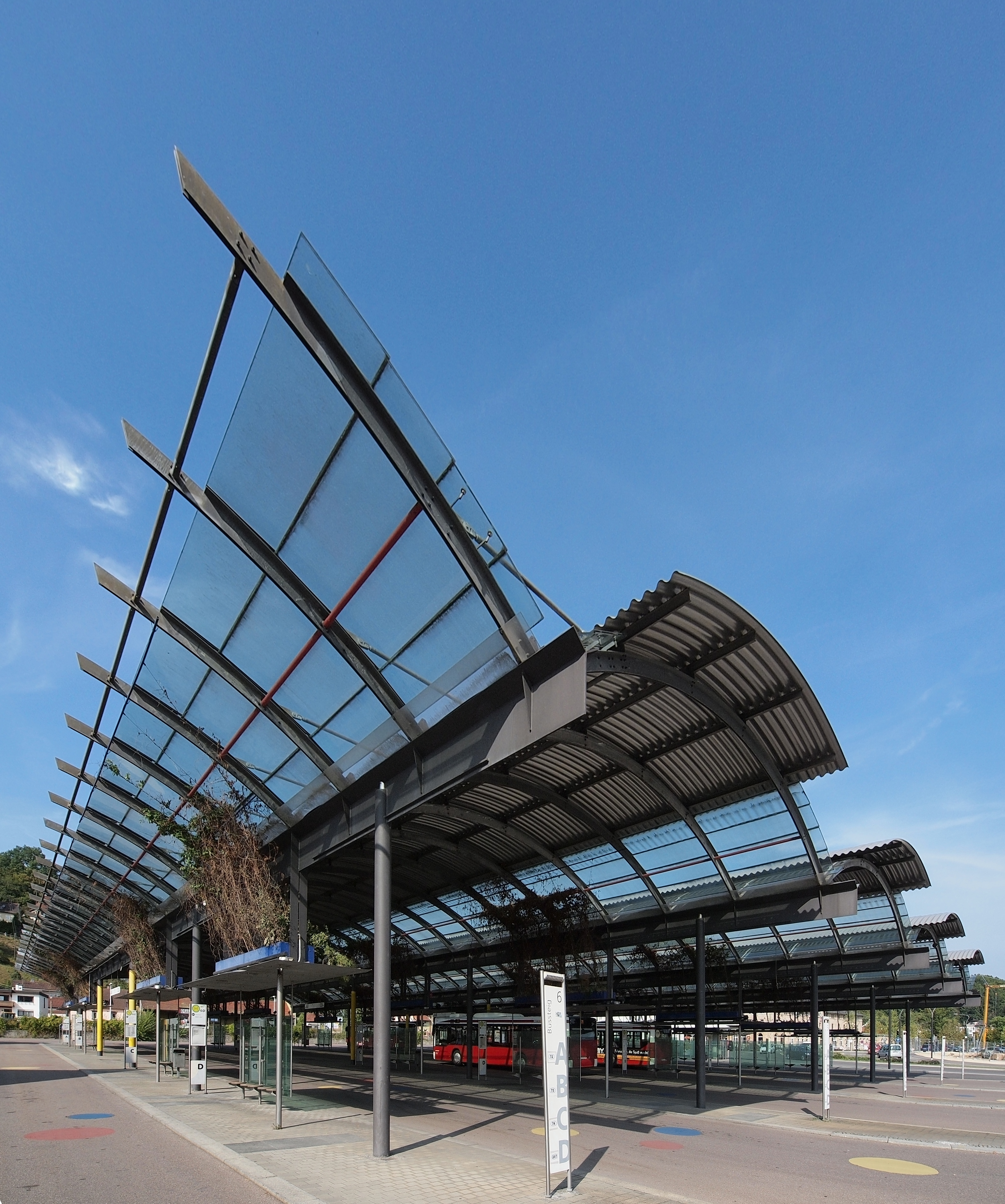 Schwäbisch Gmünd, Central Bus Station